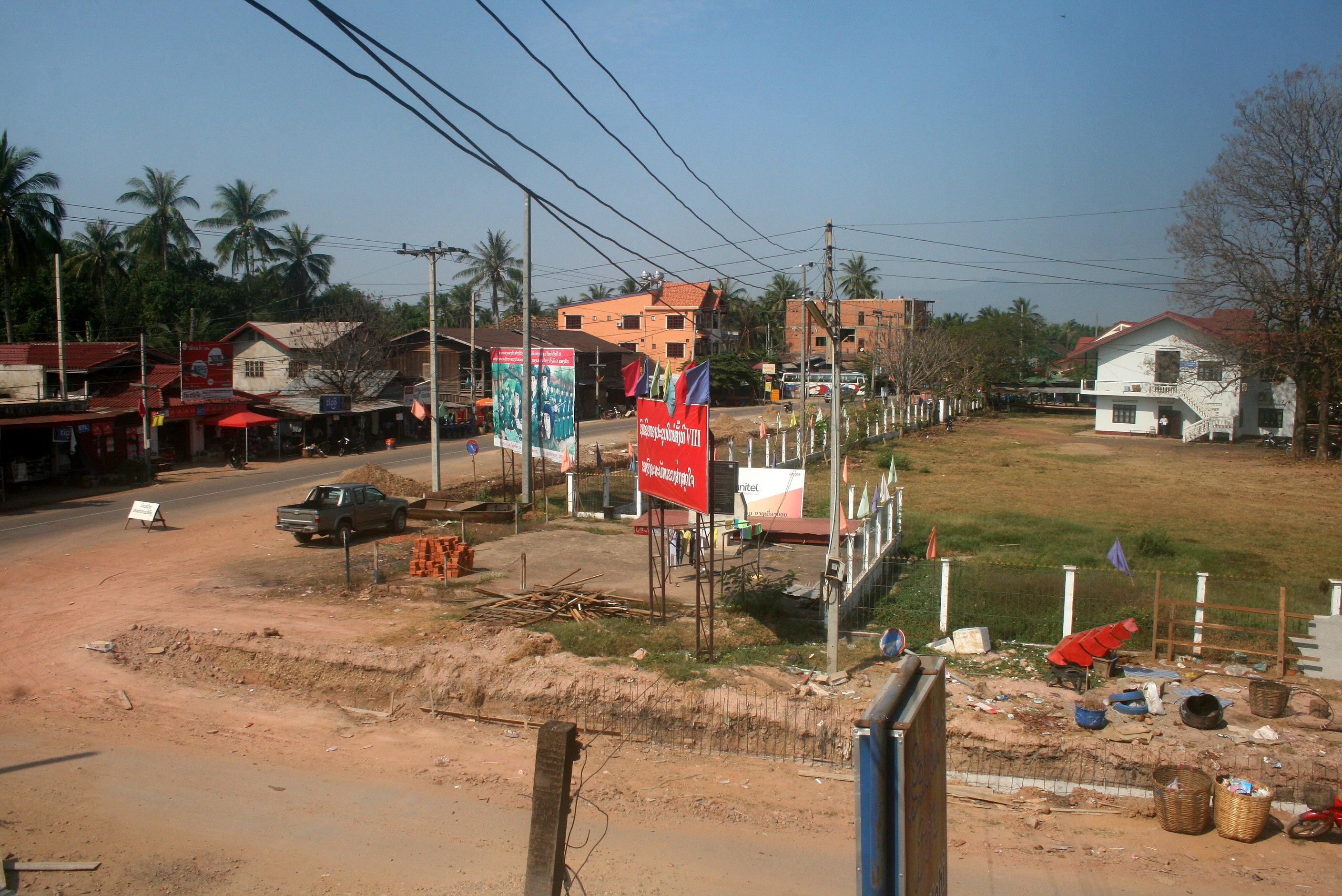 town center of Attapeu town, Attapeu province, Laos